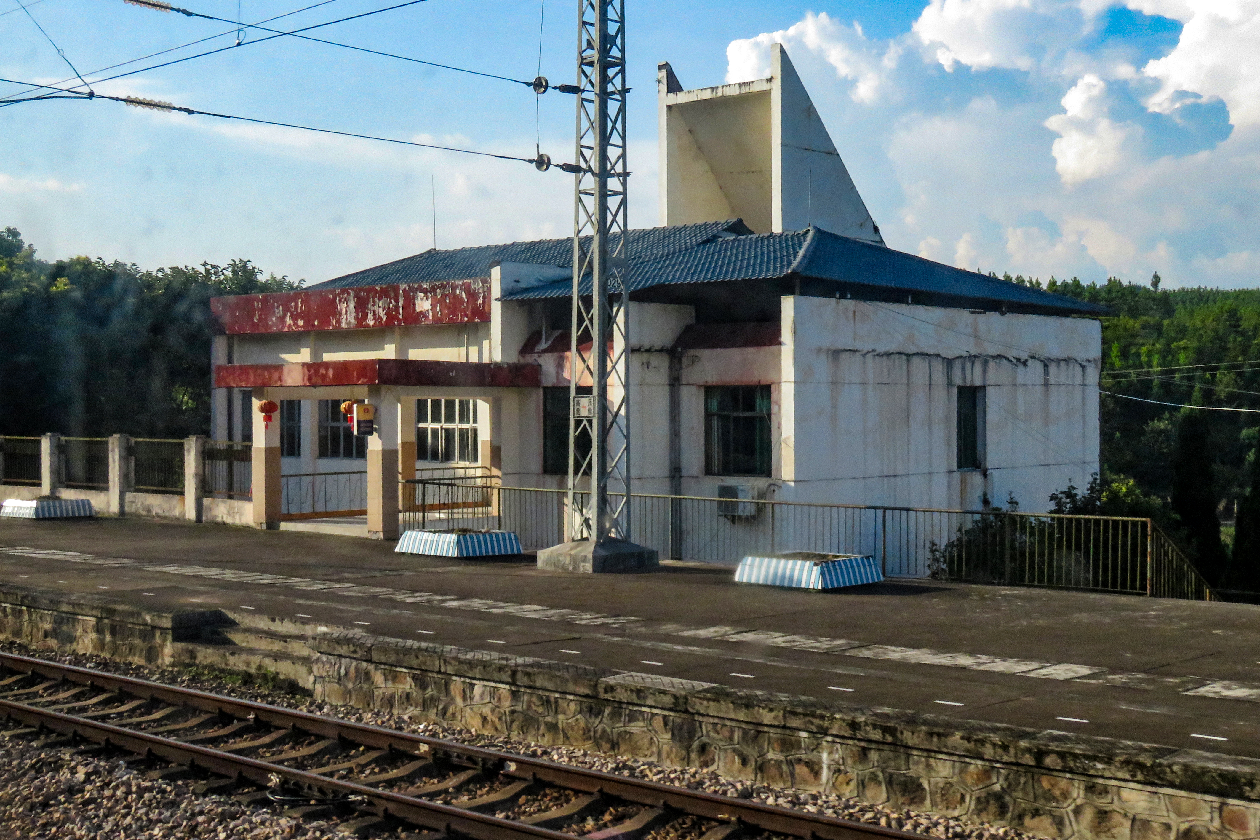 Kansai town? Not the case.